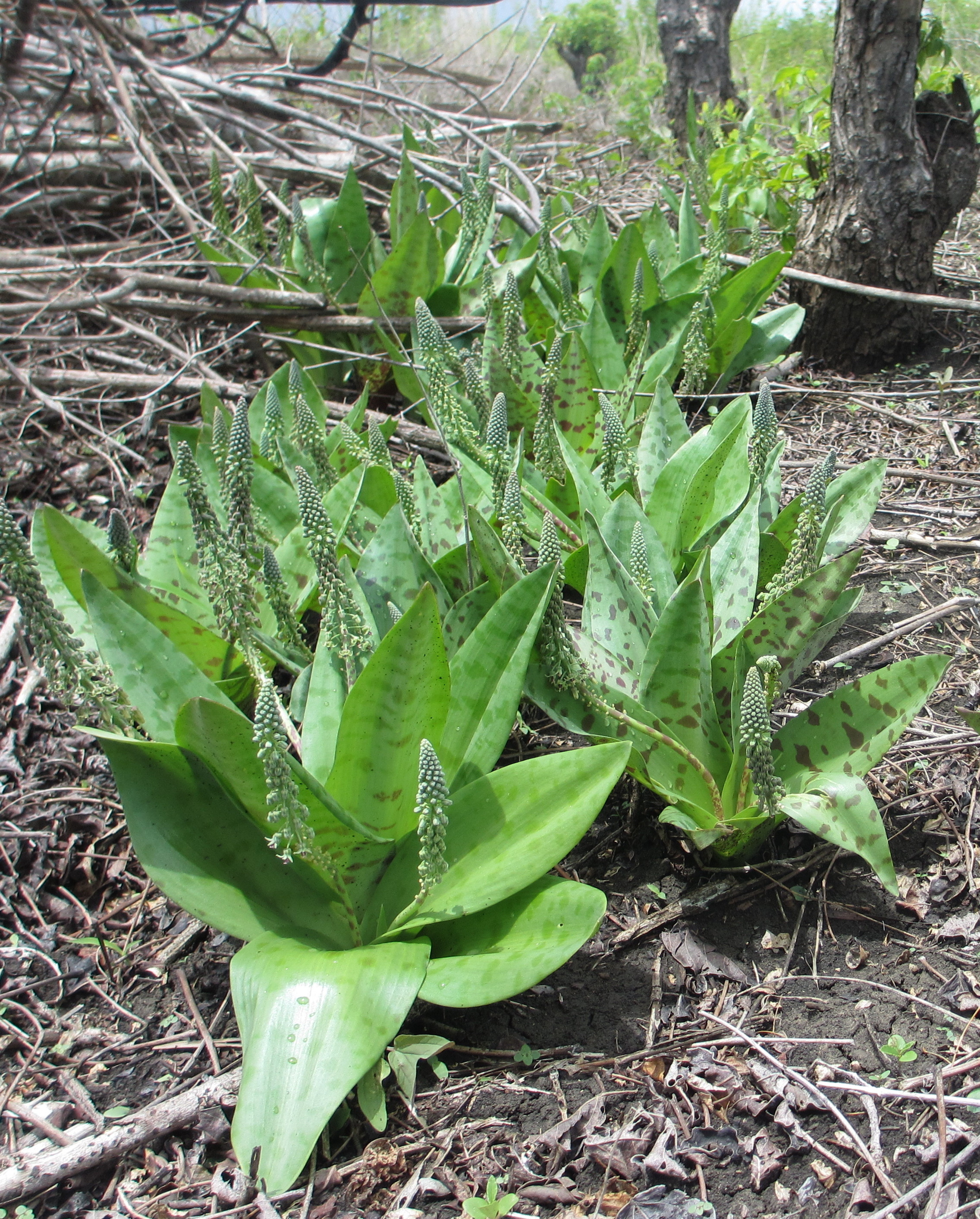 Ledebouria ? Close to Muepane, In Metuge district in northern Mozambique. Early rainy season. The colour pattern on the leaves is very variable.